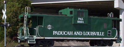 A railcar from the Paducah and Nashville Railroad, now on display in Powderly, Kentucky